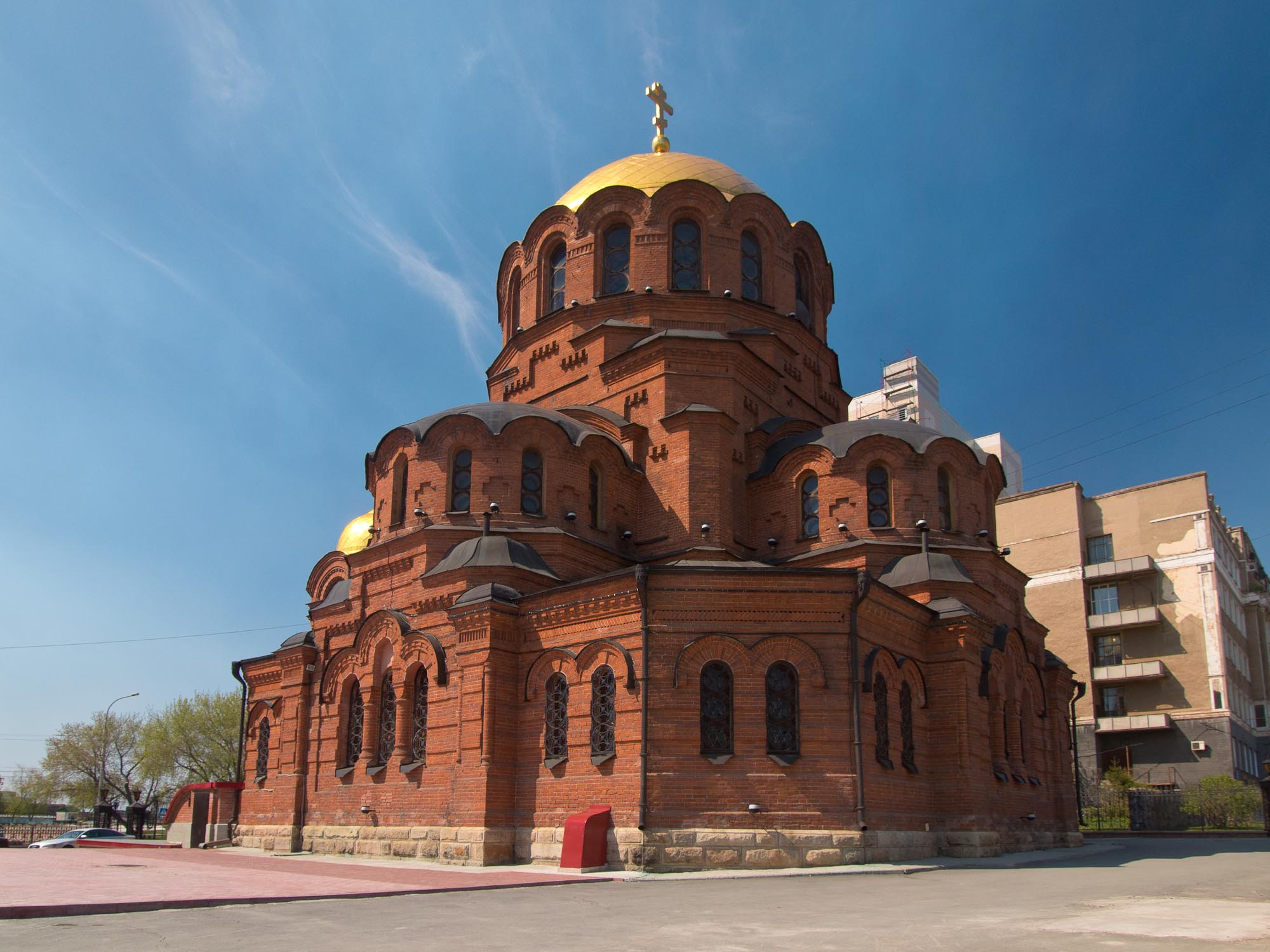 Alexander Nevsky Cathedral / Novosibirsk / Siberia / 12.05.2011